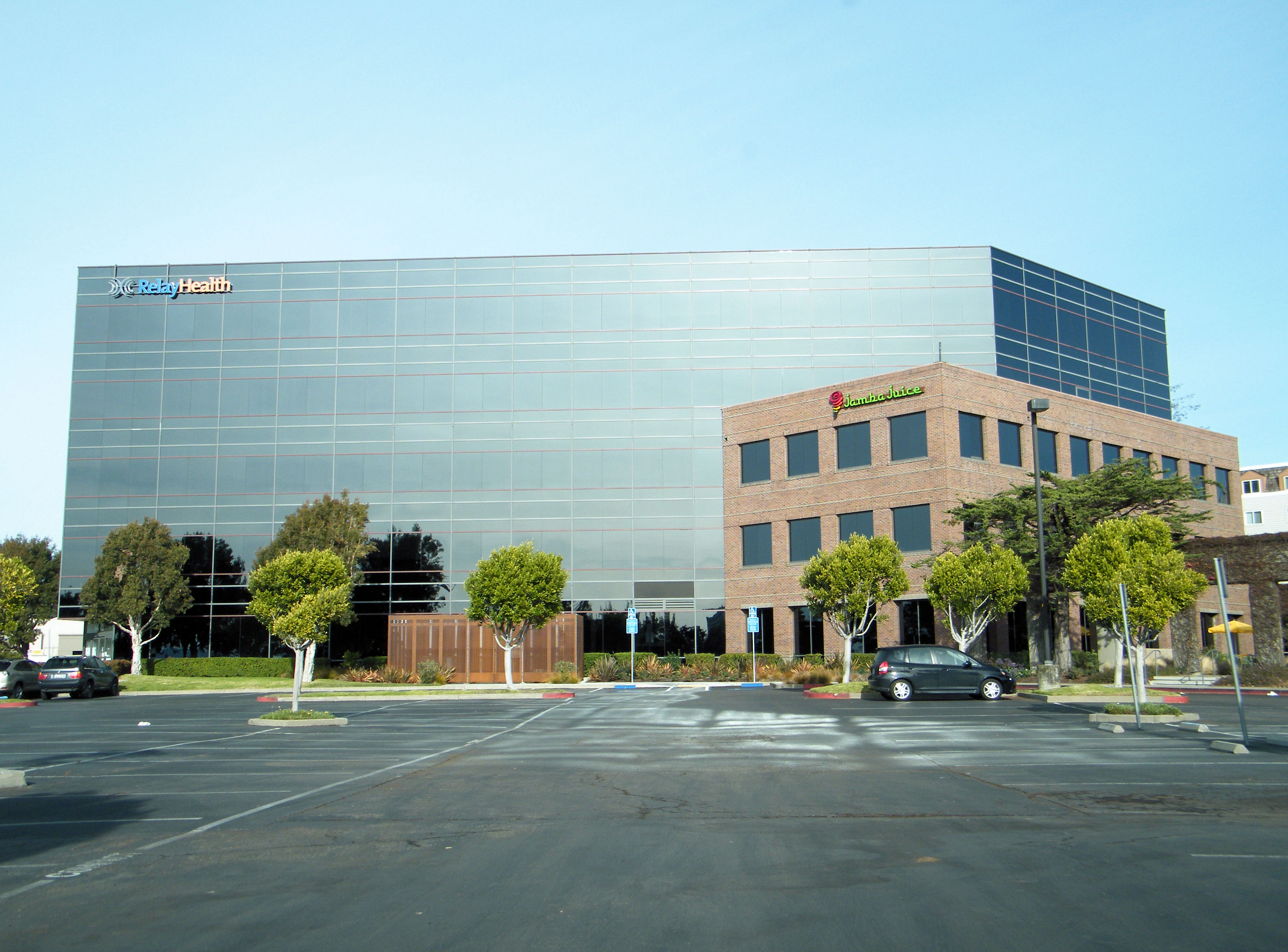 This office building at 6475 Christie Avenue in Emeryville is (at the time this photo was taken) home to the headquarters of both Jamba Juice and Sendmail.